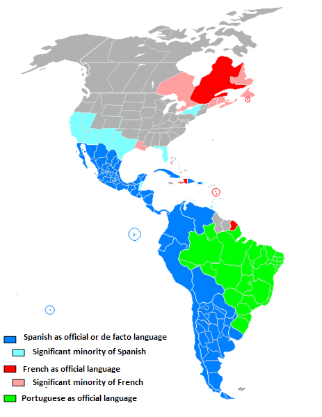 Latin America and the influence